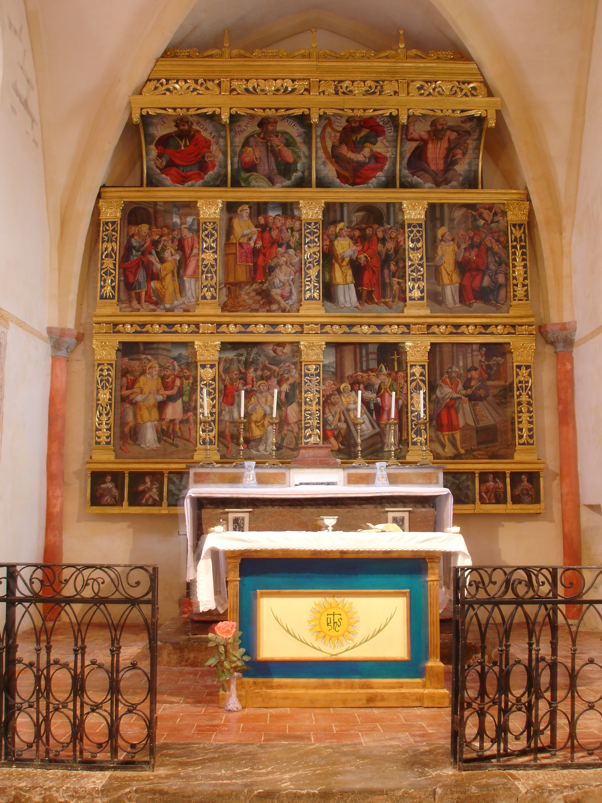 Retable of the Church from Villerouge Termenès